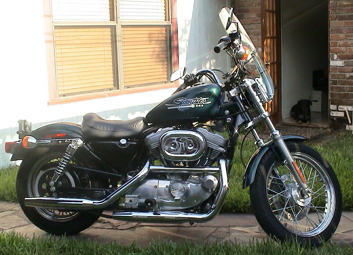 Picture of my HD 883 Sportster Hugger. I (Eric V. Blanchard) took this photo in September 2007. --Evb-wiki 19:11, 14 September 2007 (UTC)